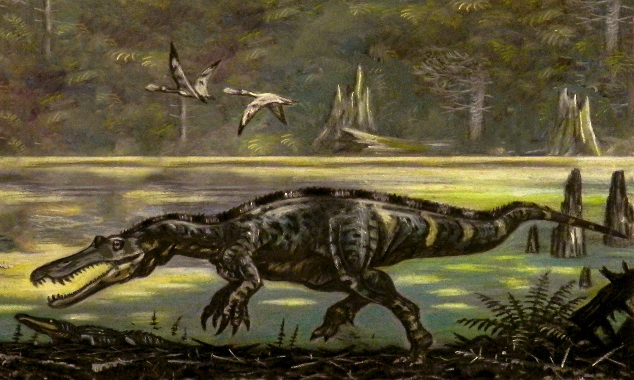 Life restoration of Baryonyx